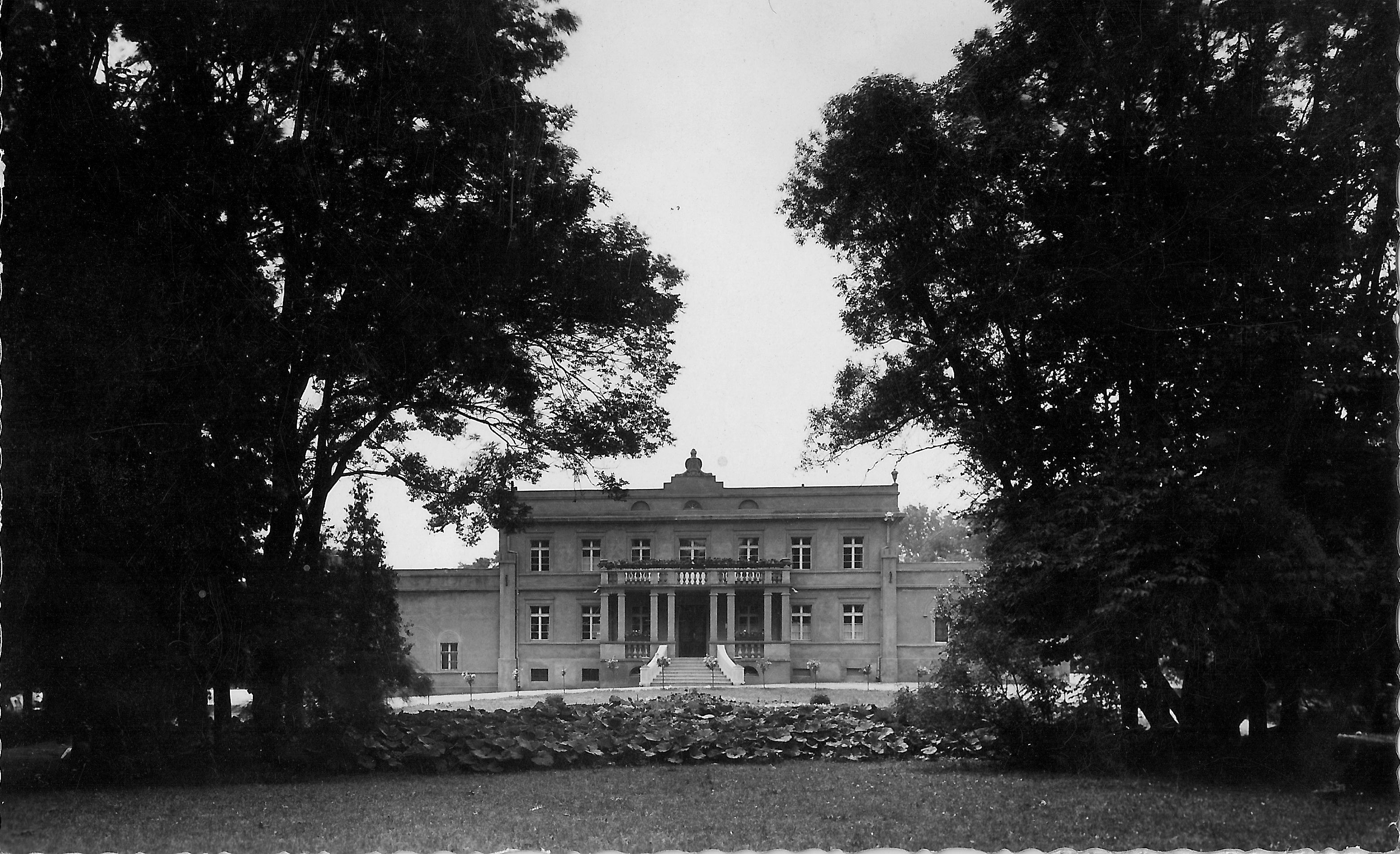 Kosiński palace in Połażejewo, c. 1920